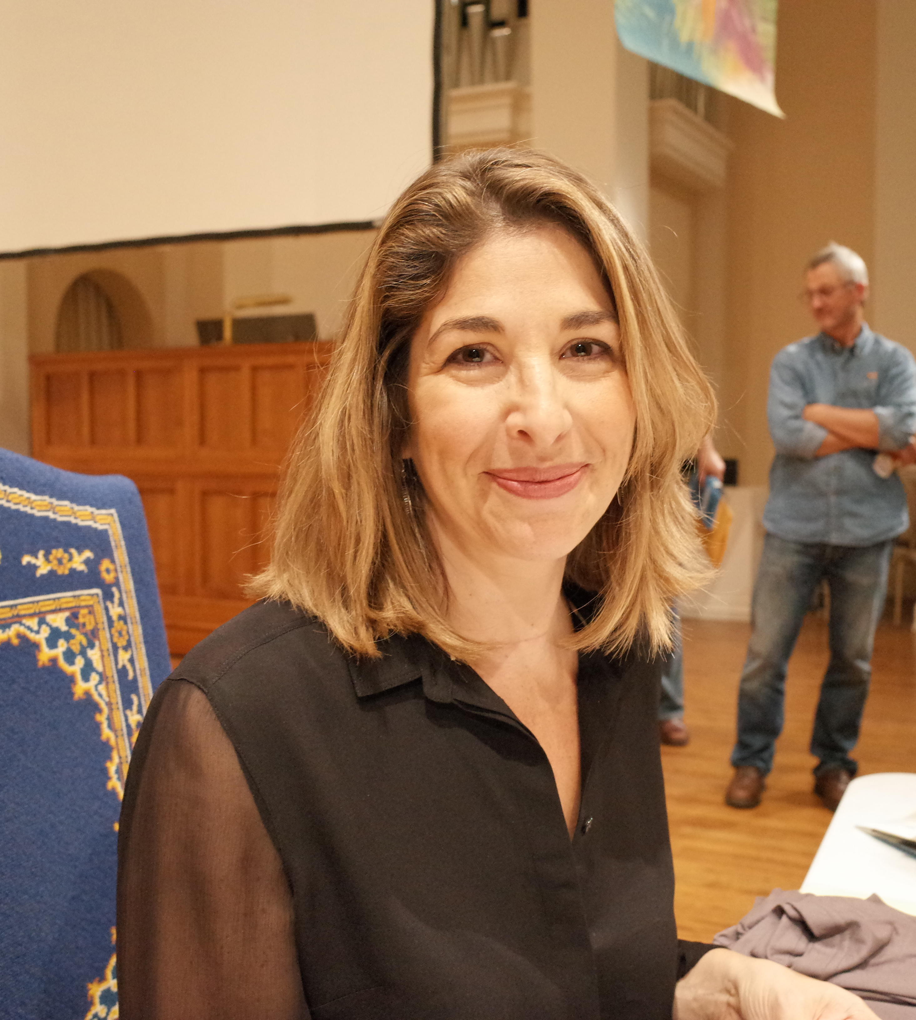 Naomi Klein at Berkeley (California), on 29 September 2014.